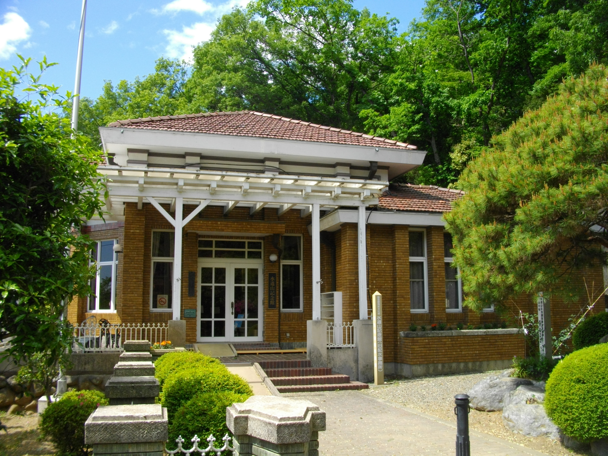 Suidoyama Memorial Hall